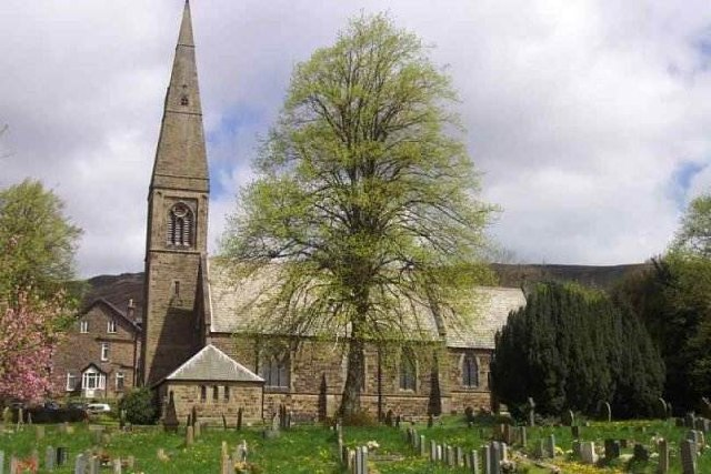 St. John the Baptist, Bamford in the Peak